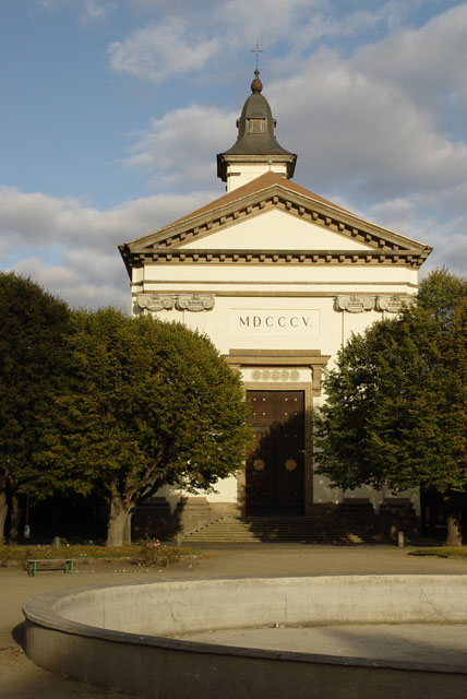 Description: City church of Terezín (German name: Theresienstadt), Czech Republic Source: My own work Author: Bernd Janning, Date: 16.10.2005